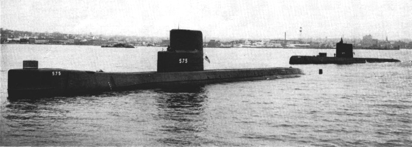 The U.S. Navy submarines USS Seawolf (SSN-575) and USS Nautilus (SSN-571), in 1957.